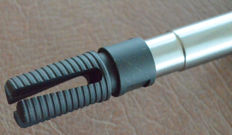 This is a flash hider known as the Vortex Flash Hider by Smith Enterprise, mounted on an AR15 rifle.